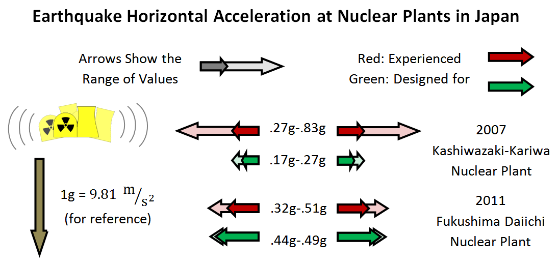 Illustration of the shaking experienced at nuclear power plants in Japan compared to the design values. Illustrates that the pre-2007 design values were much lower than what experienced in both events, but since then regulations have been stiffened and the 2011 tsunami-quake only barely exceeded the revised design values.